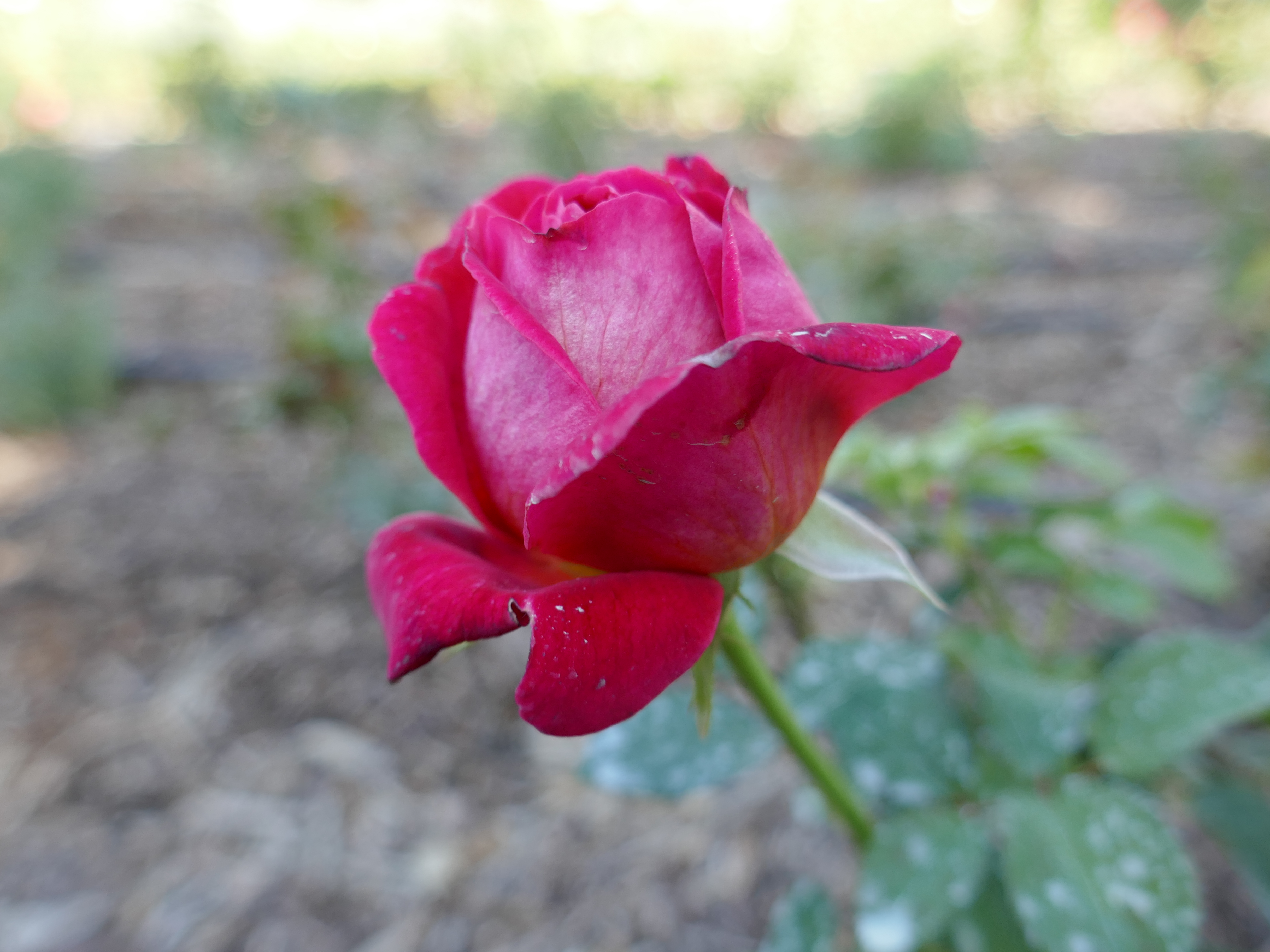 Rosa 'Abbaye de Fontfroide' (Guillot, 2013) flowering in the rose garden of Abbaye de Fontfroide (France)